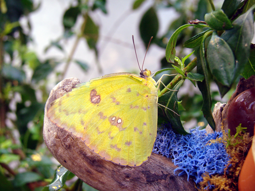 Phoebis philea en